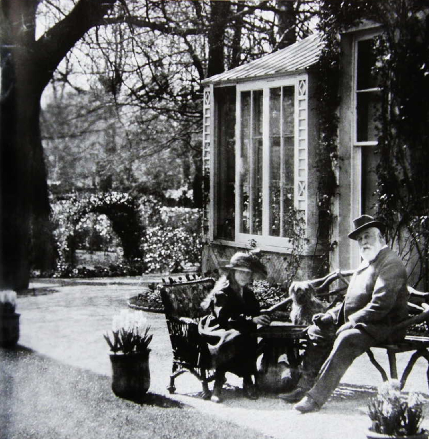 Extreme left of the back of Ashfield, Torquay circa 1900